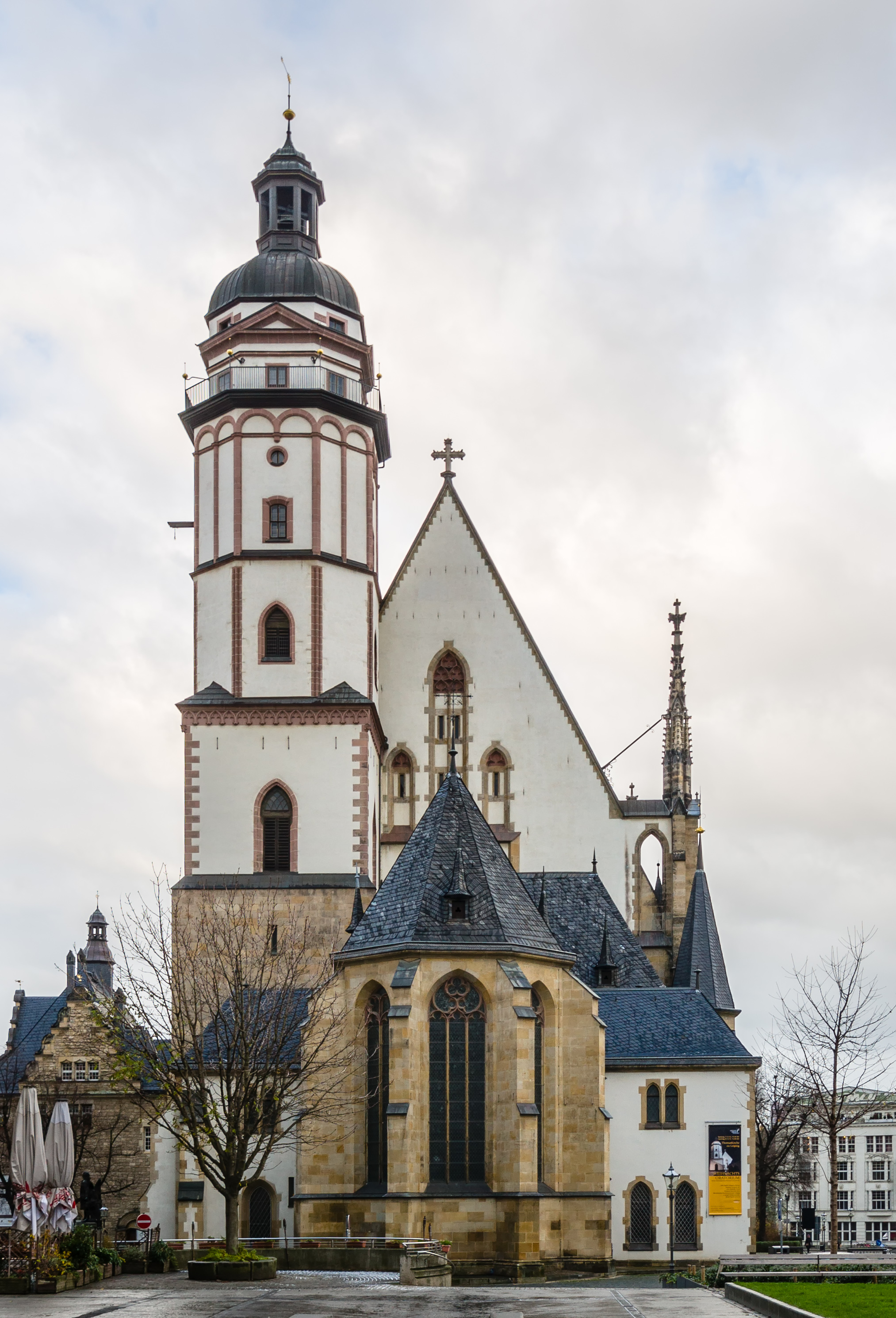 Thomas Church ("Thomaskirche"), west fassade